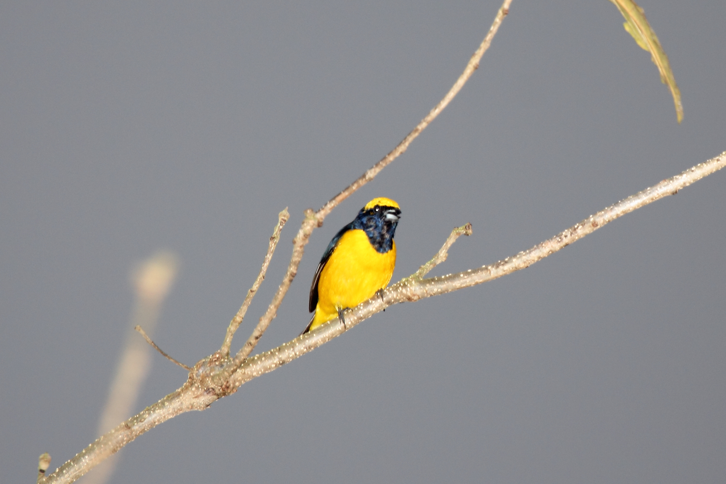 Yellow-crowned Euphonia (Euphonia luteicapilla)